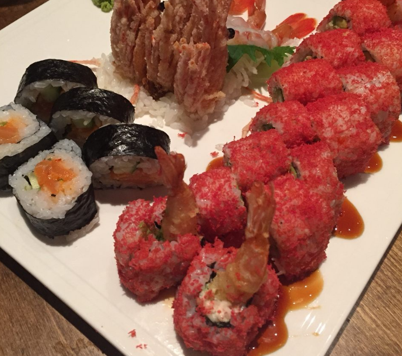 American shrimp tempura and spicy salmon rolls